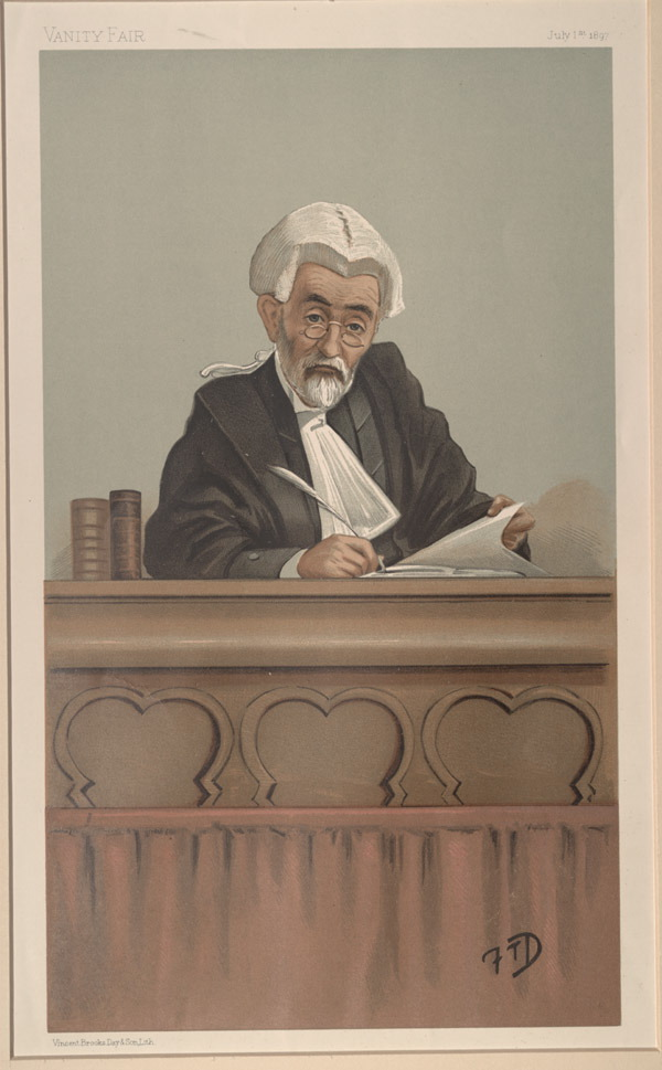 Caricature of Mr Justice Ridley. Caption read "The New Judge". A later reprint identifies the judge as The Hon. Sir Edward Ridley (1843-1928).